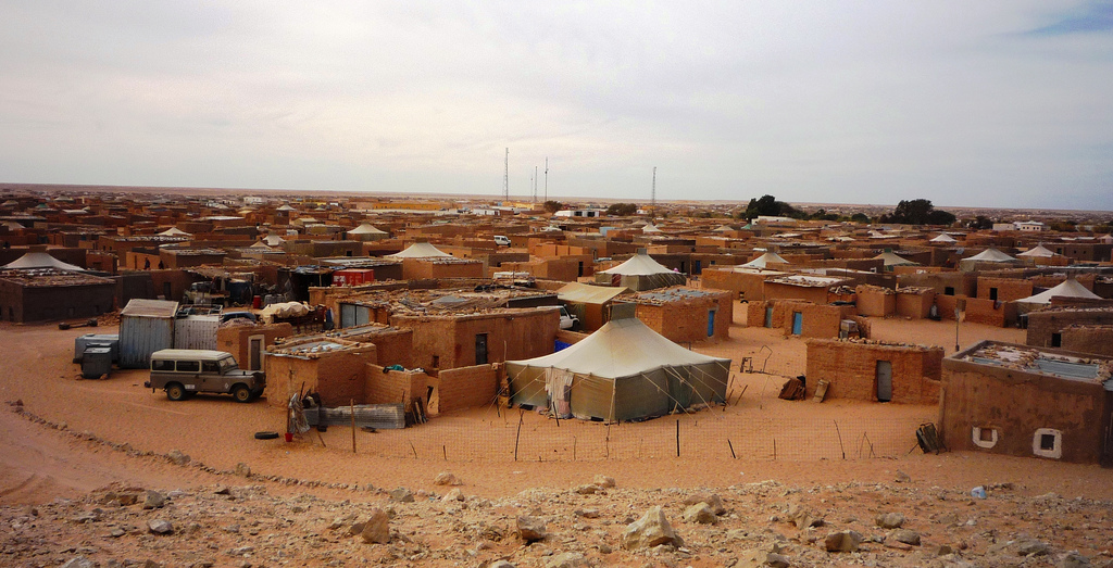 For over 30 years, several tens of thousands Sahrawi refugees have been living in the region of Tindouf, Algeria, in the heart of the desert, in four refugee camps. They were stranded here in the aftermath of the conflict between Morocco and the Polisario Front over the former Spanish colony of Western Sahara following Spain's withdrawal in 1975.